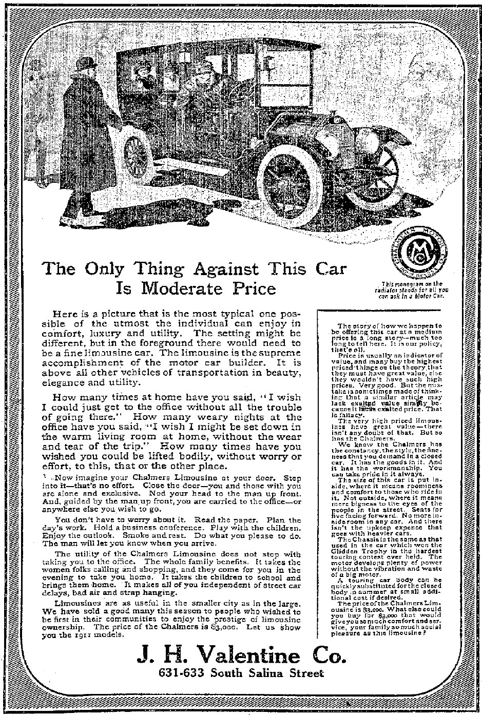 A 1911 Chalmers-Detroit Advertisement, Limousine $3,000